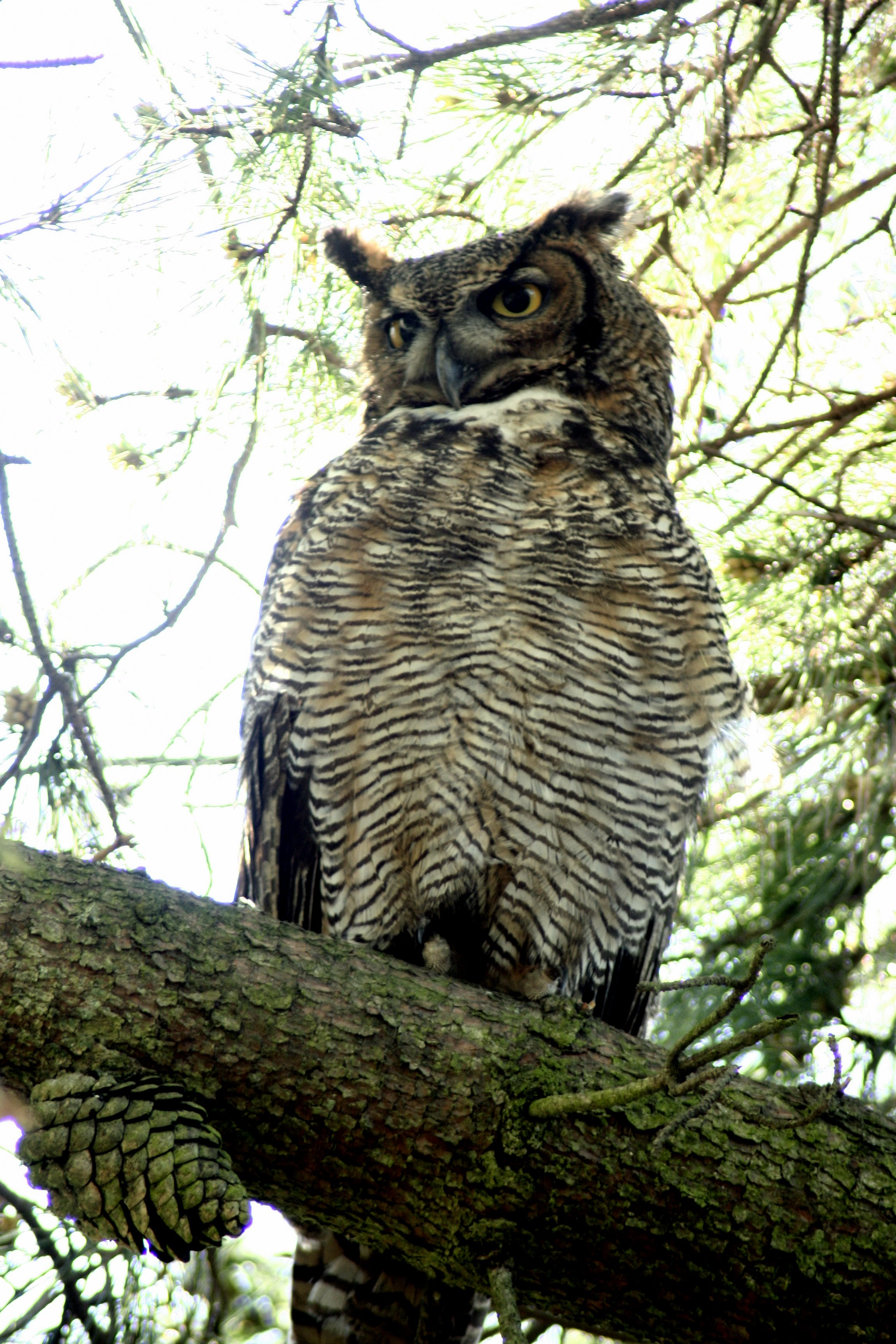 Great Horned Owl, sitting (taken on Bernal Hill, San Francisco, California)